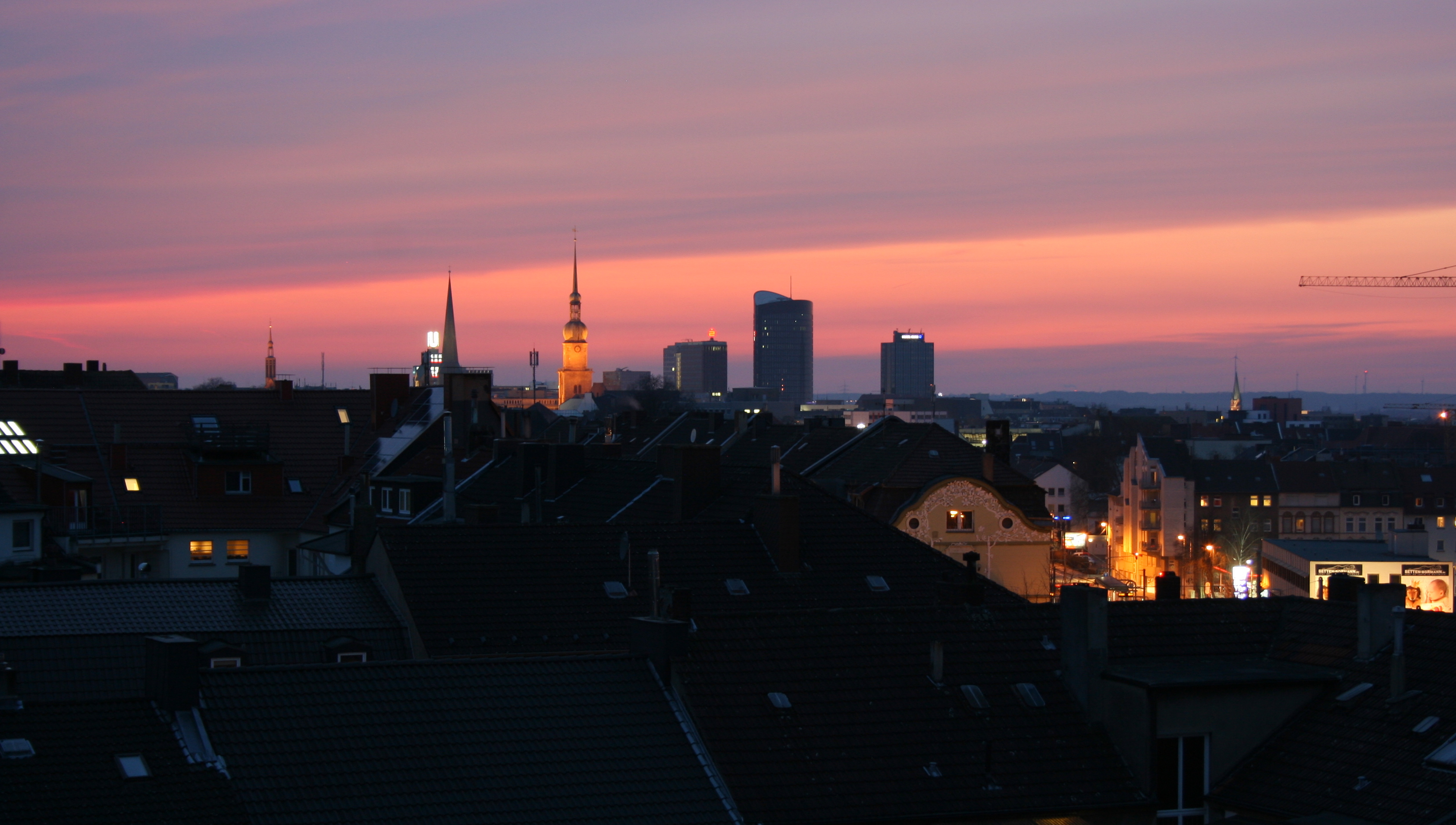 Dortmund cityscape